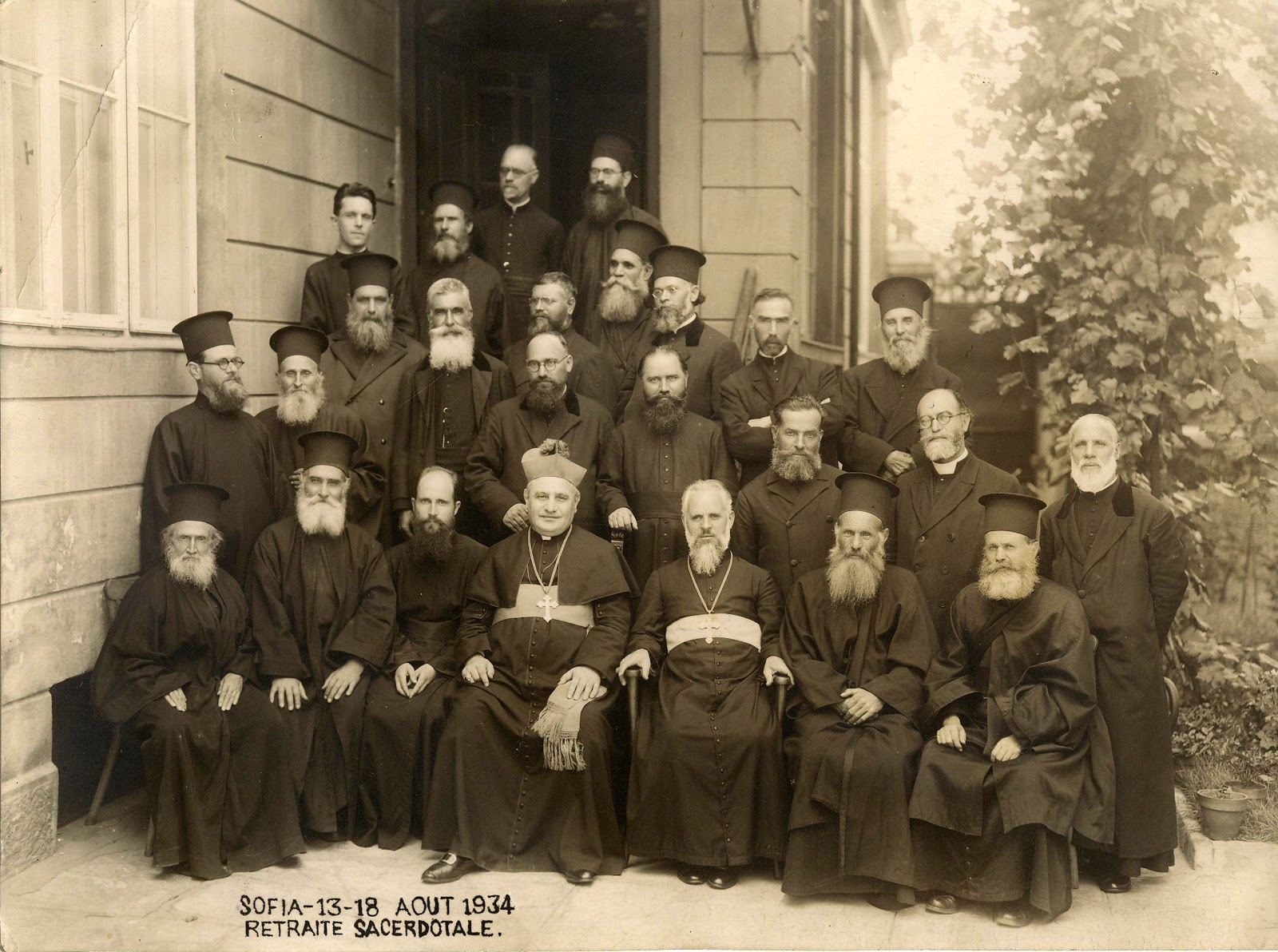 Roncalli with the Eastern Rite Catholic priests in Sofia, 13-18 August 1934